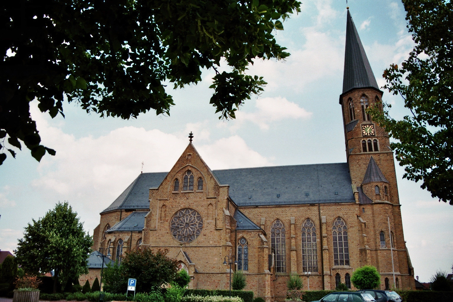 Catholic St. Laurentius church in Neuenkirchen, part of the Samtgemeinde Neuenkirchen, Landkreis Osnabrück, Lower Saxony, Germany.